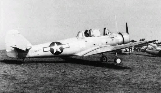 The single U.S. Navy Naval Aircraft Factory XN5N-1 (BuNo 1521), circa 1944-1947. It made its first flight on 15 February 1941 and was donated by the U.S. Navy to trade scool in 1947.